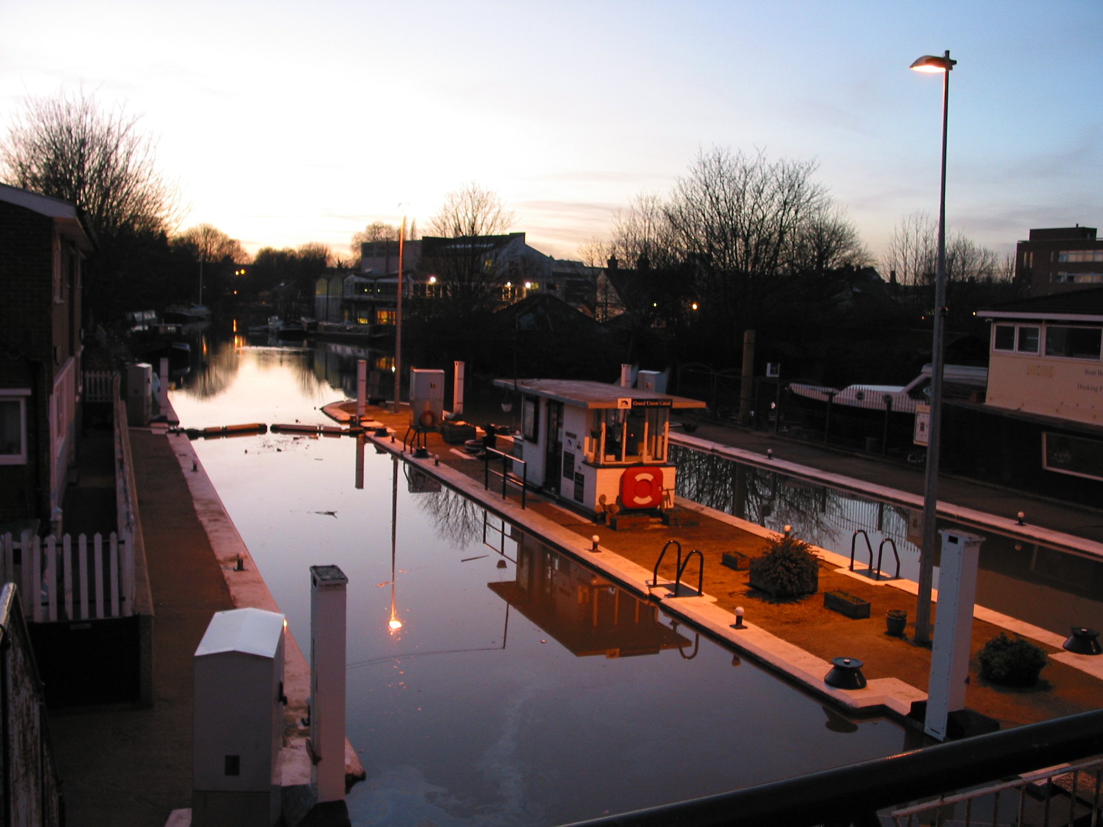 Thames Lock, Brentford, UK, Spring Tide, Twilight photo by myself Date and Time 2005:01:13 16:45 Exposure Time 1/8 sec. F Number f/2.0 Copyright © 2005 WLD